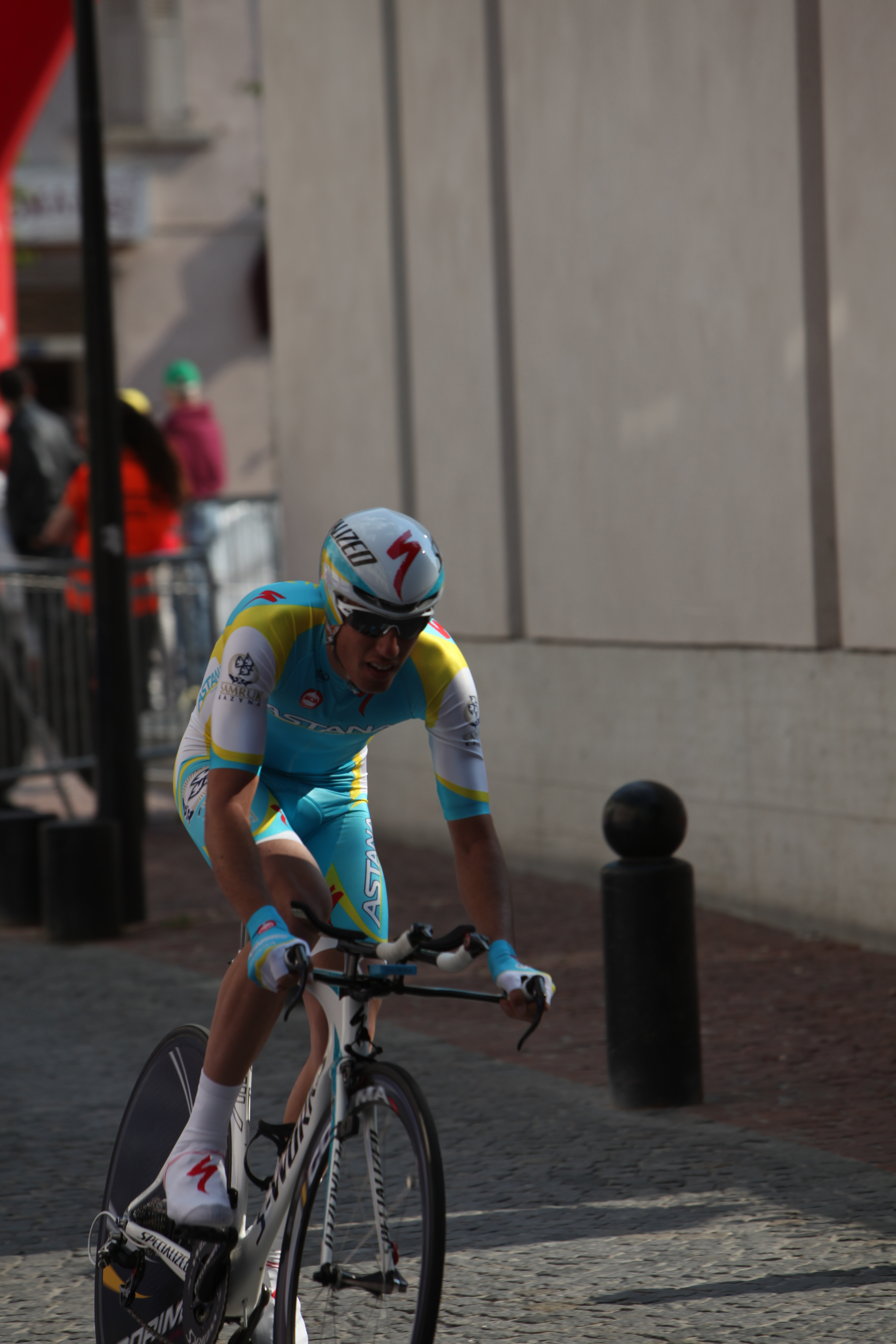 Robert Kyserlovsky at the prologue of the Tour de Romandie 2011